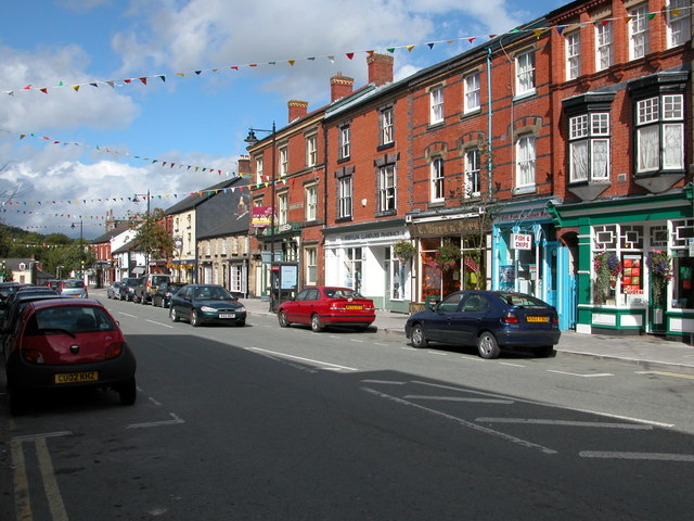 Llanidloes.